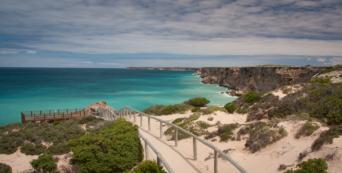 View whales from here